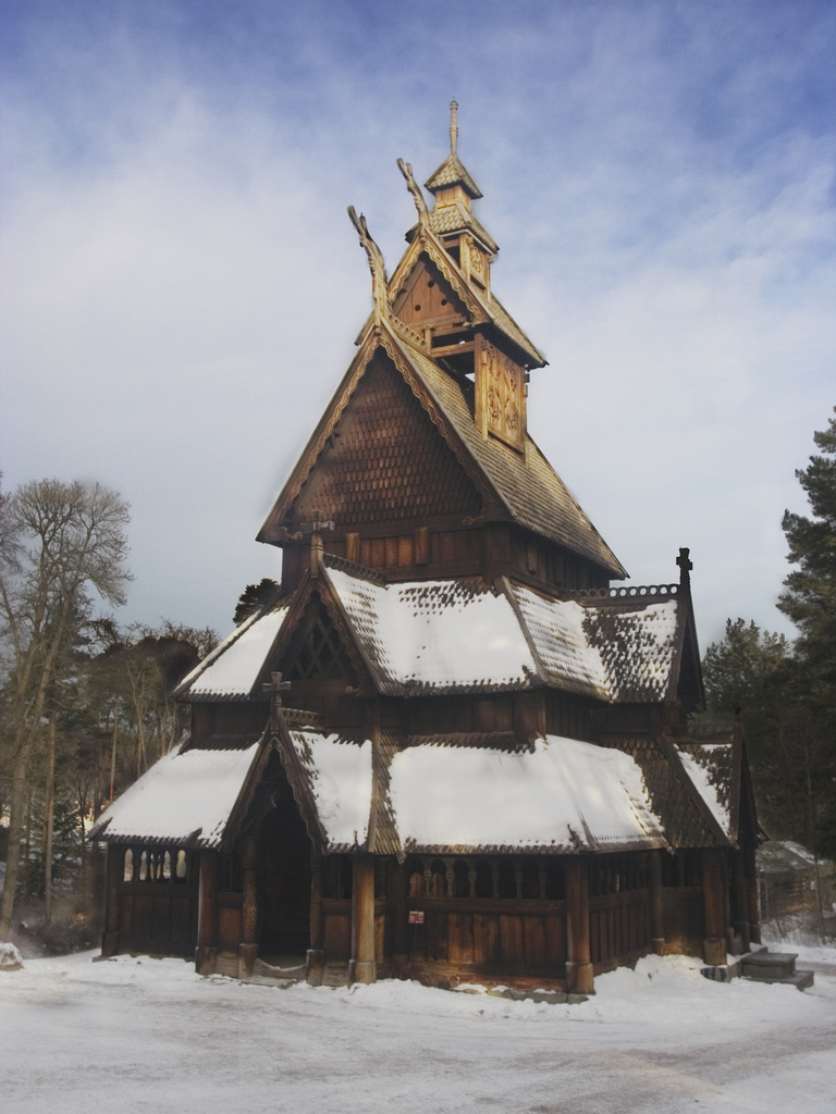 This is a stave church in Norway. It is a medieval wooden church with a post and beam construction that is related to timber framing.